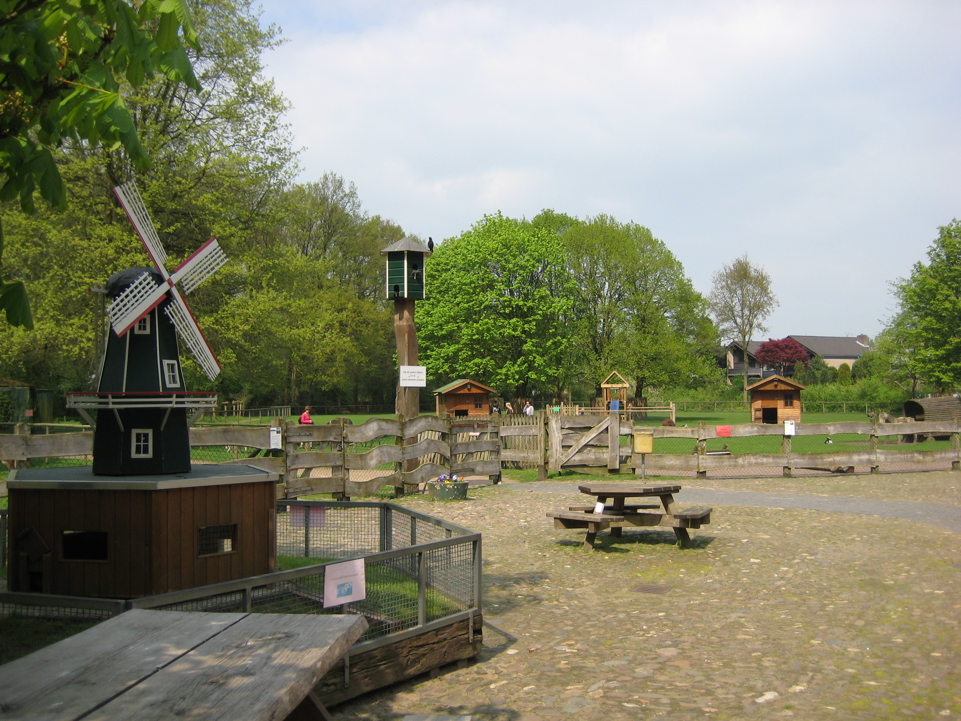 Petting zoo, the Netherlands